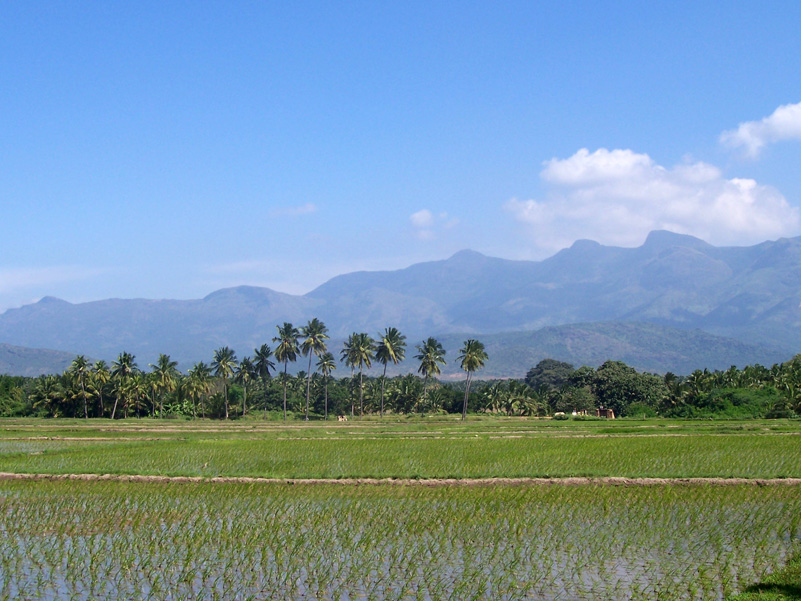 Country side in Theni District of Tamil Nadu